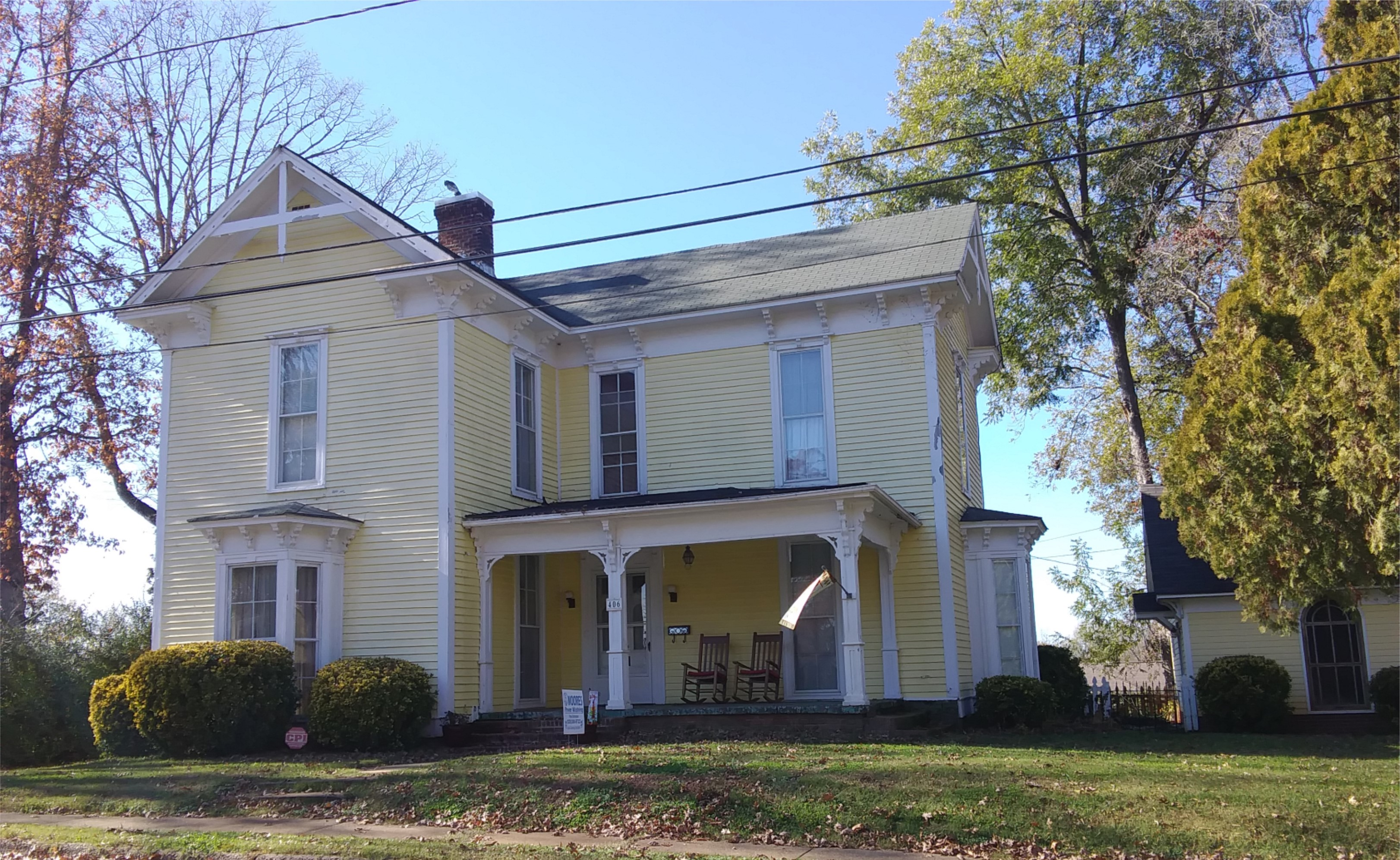 Foil-Cline 1883 farm house, Italianate style